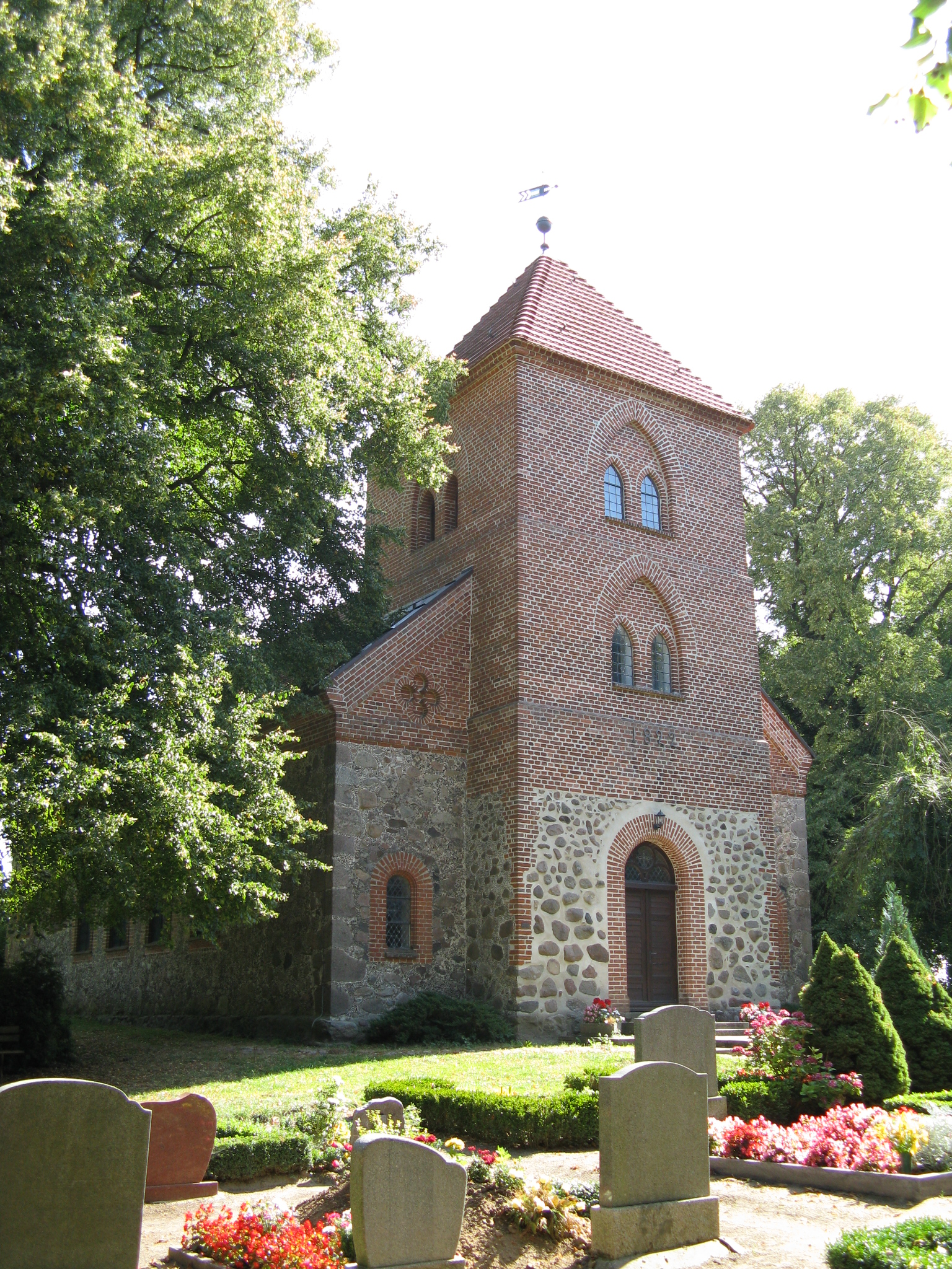 Church in Kirch Poppentin, disctrict Mecklenburgische Seenplatte, Mecklenburg-Vorpommern, Germany